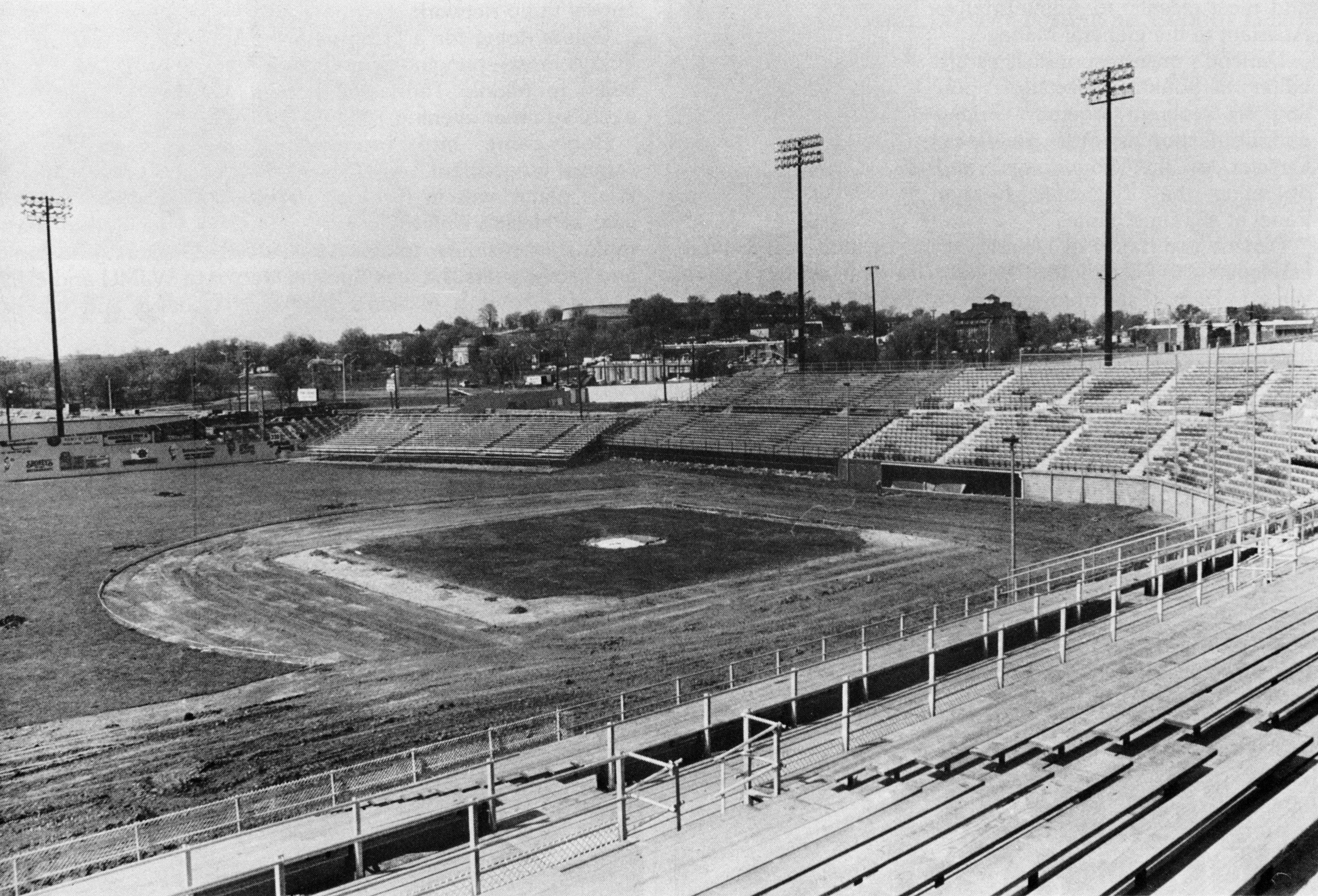 Herschel Greer Stadium in Nashville, home of the Nashville Sounds Minor League Baseball team of the Southern League, nearing an end in 1978